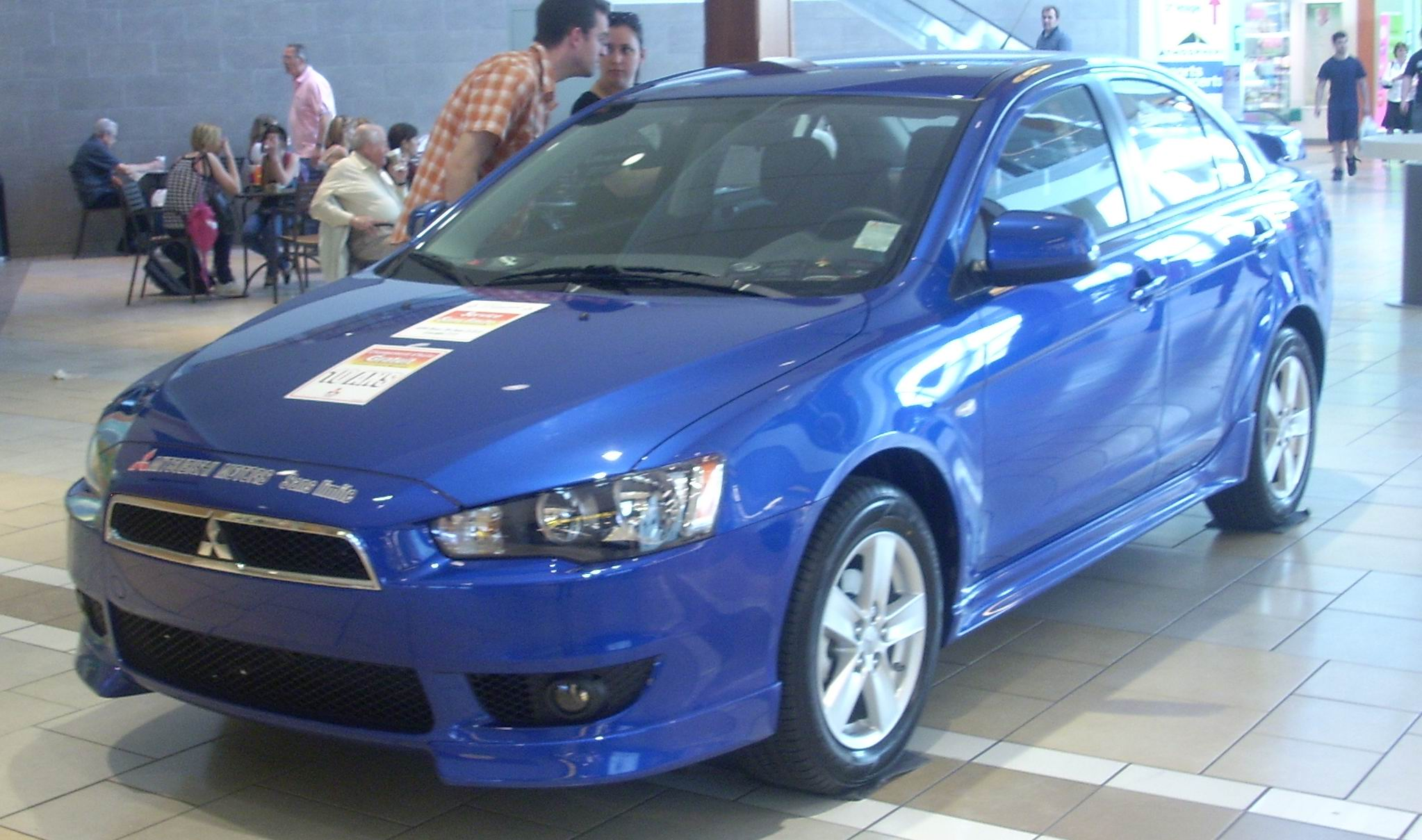 2008 Mitsubishi Lancer photographed in Montreal, Quebec, Canada.